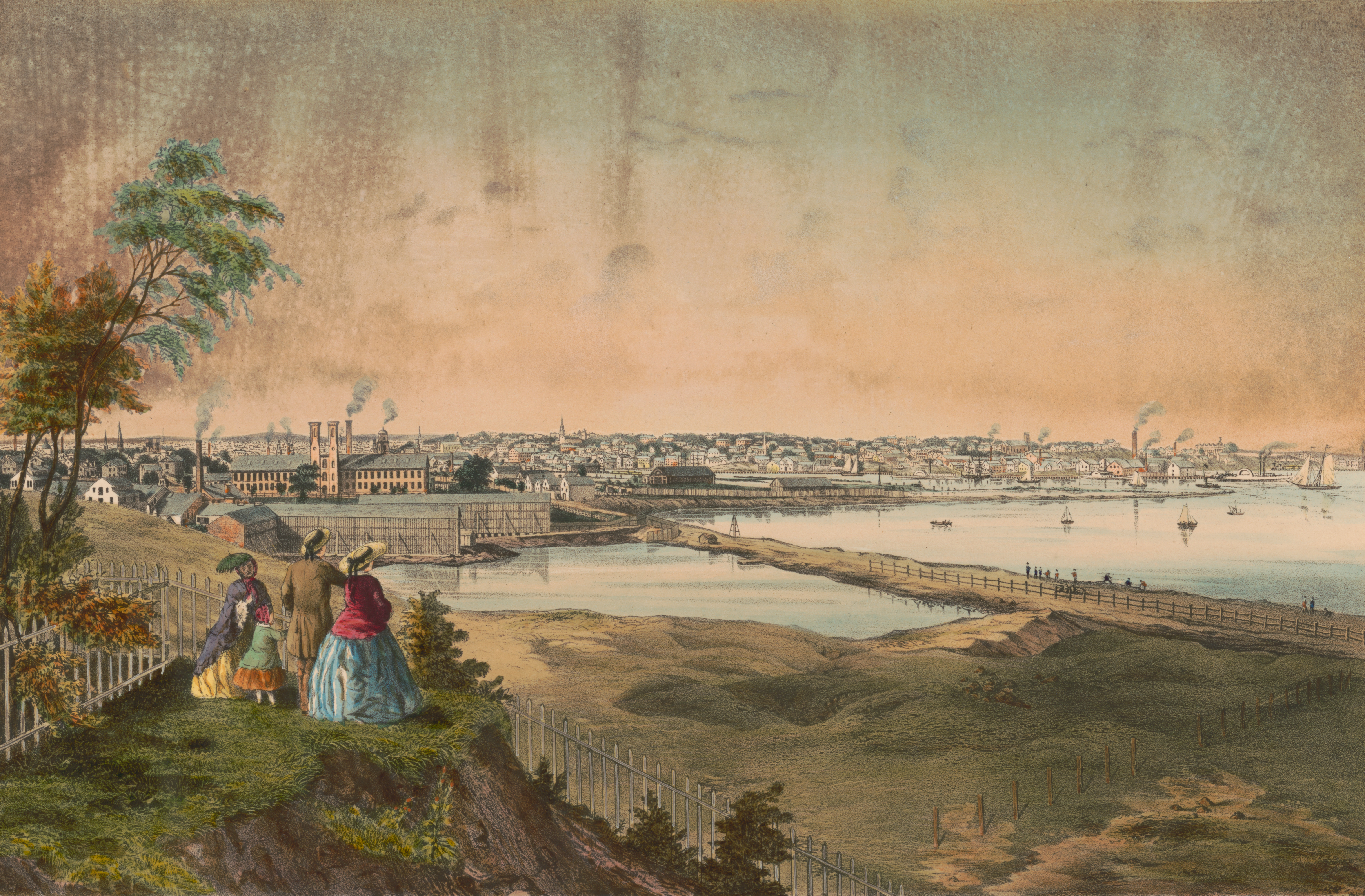 Providence, Rhode Island, 1858. Harbor view, taken from the grounds of George W. Rhodes, Esquire. Hand-colored lithograph.